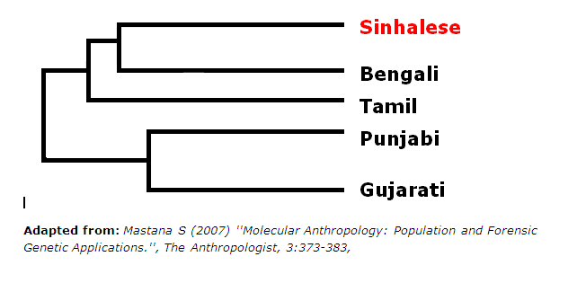 Genetic distance of Sinhalese to other ethnic groups in the Indian Subcontinent according to an Alu Polymorphism analysis. Produced by User:Wikinpg.